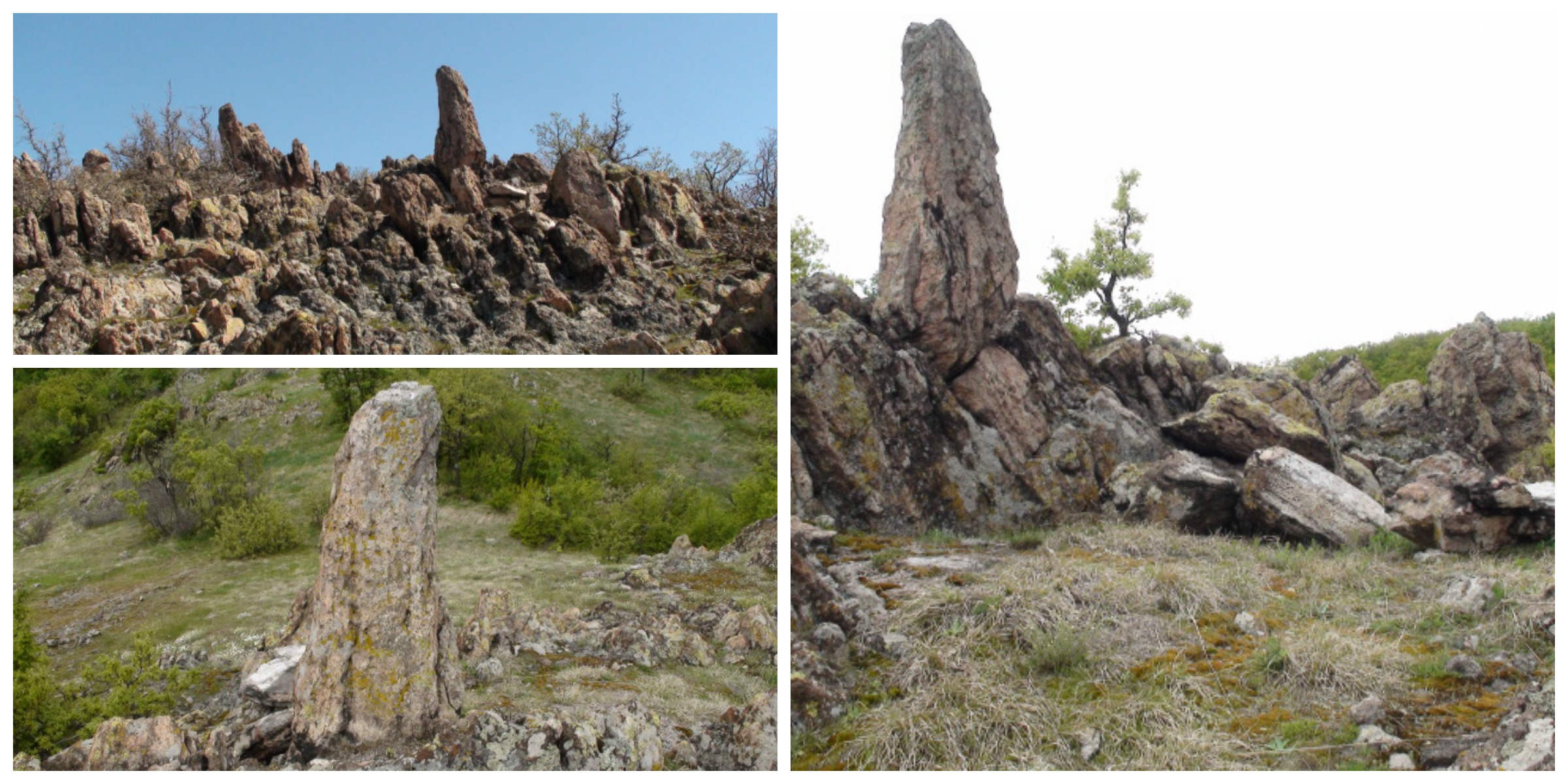 Menhirs_Golyamo_gradishte_Bryastovo_BG02